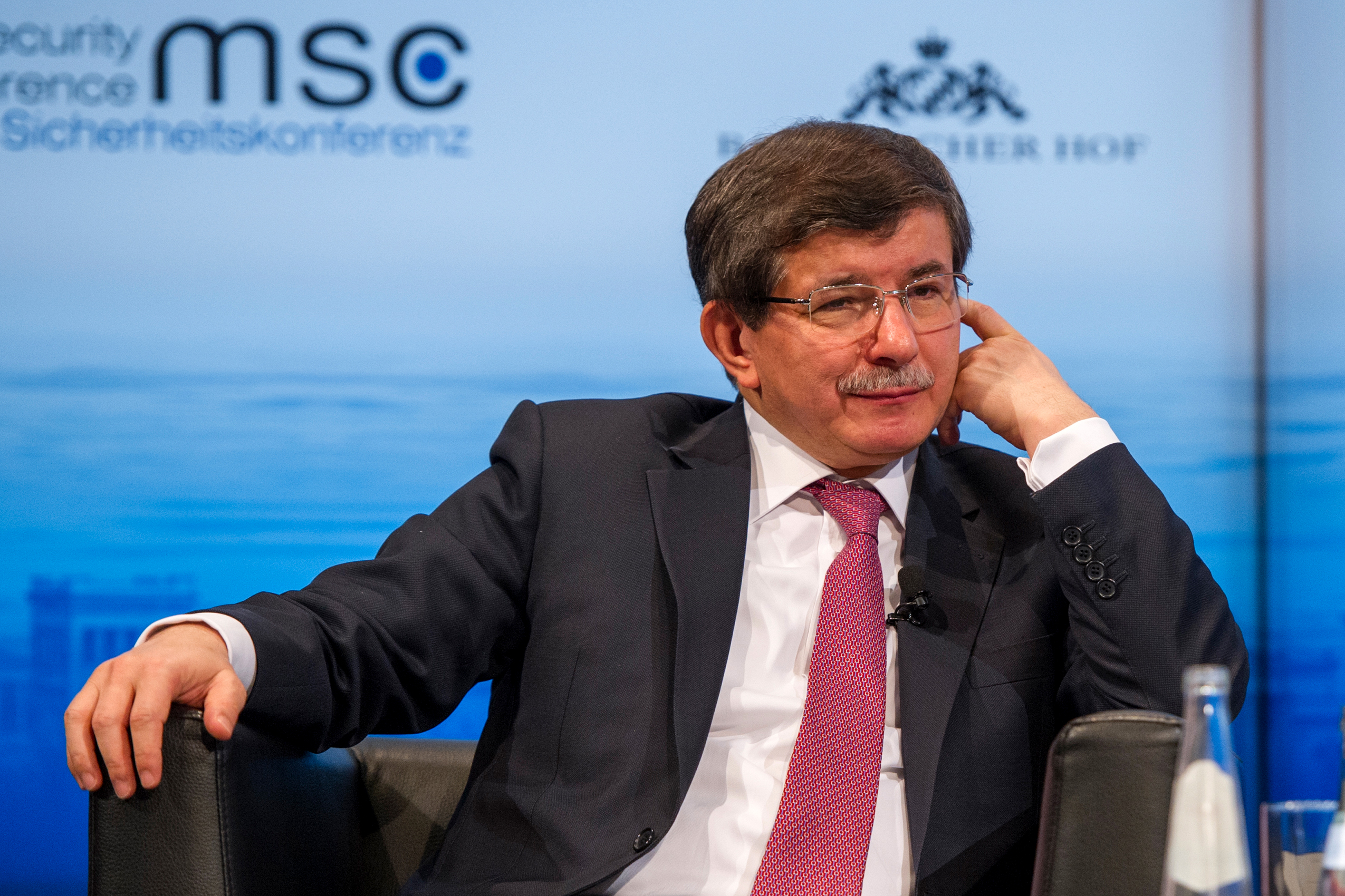 50th Munich Security Conference 2014: Ahmet Davutoğlu: Ahmet Davutoğlu (Minister of Foreign Affairs, Republic of Turkey).